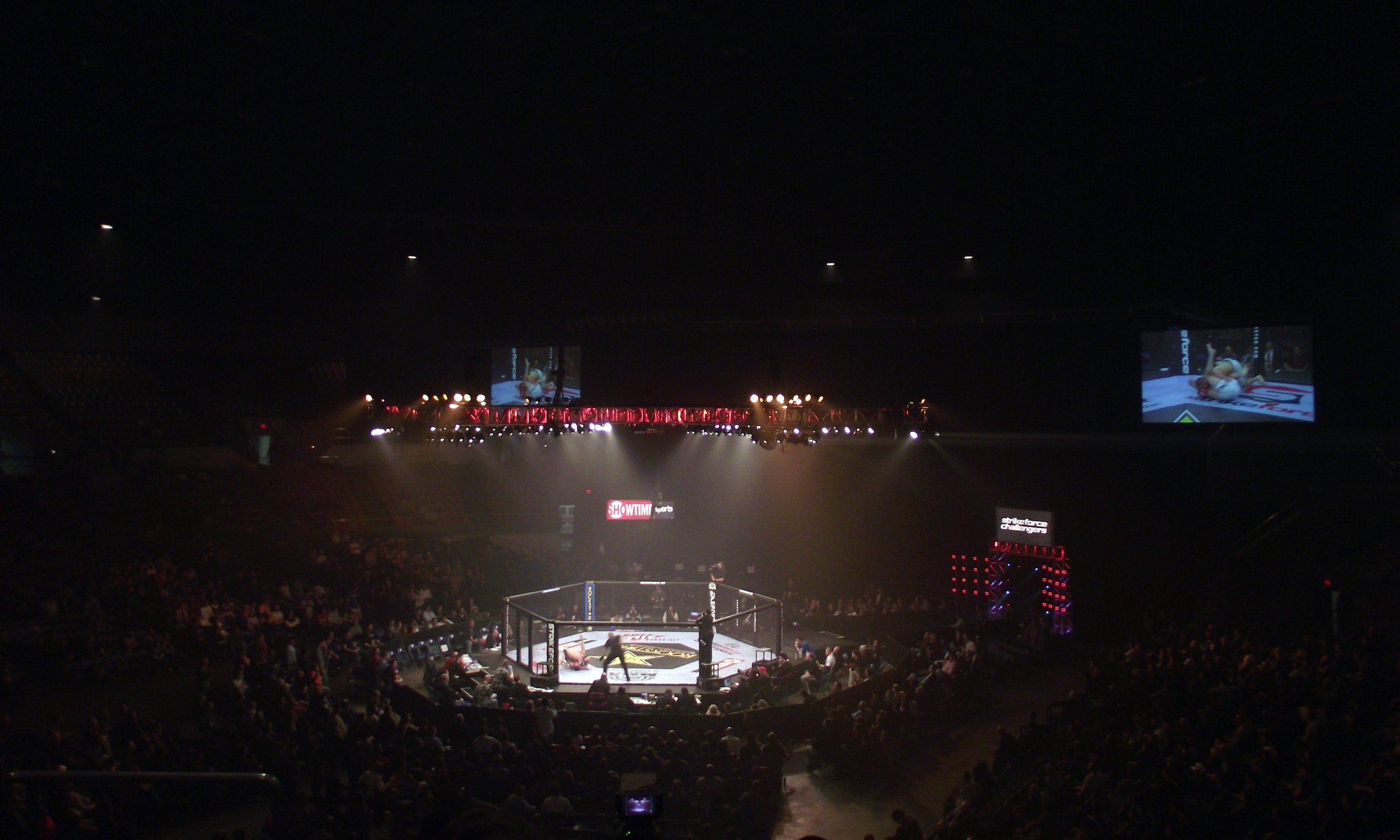 Strikeforce event set up at Nashville Municipal Auditorium.